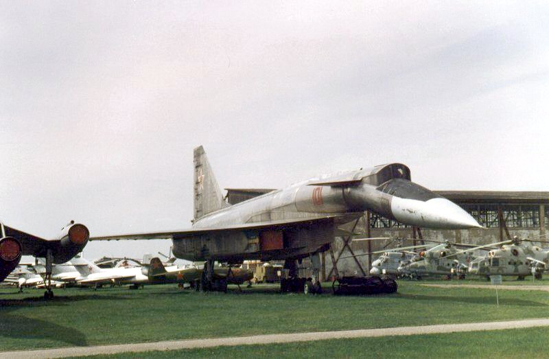 Sukhoi T4 experimental bomber in Monino museum.